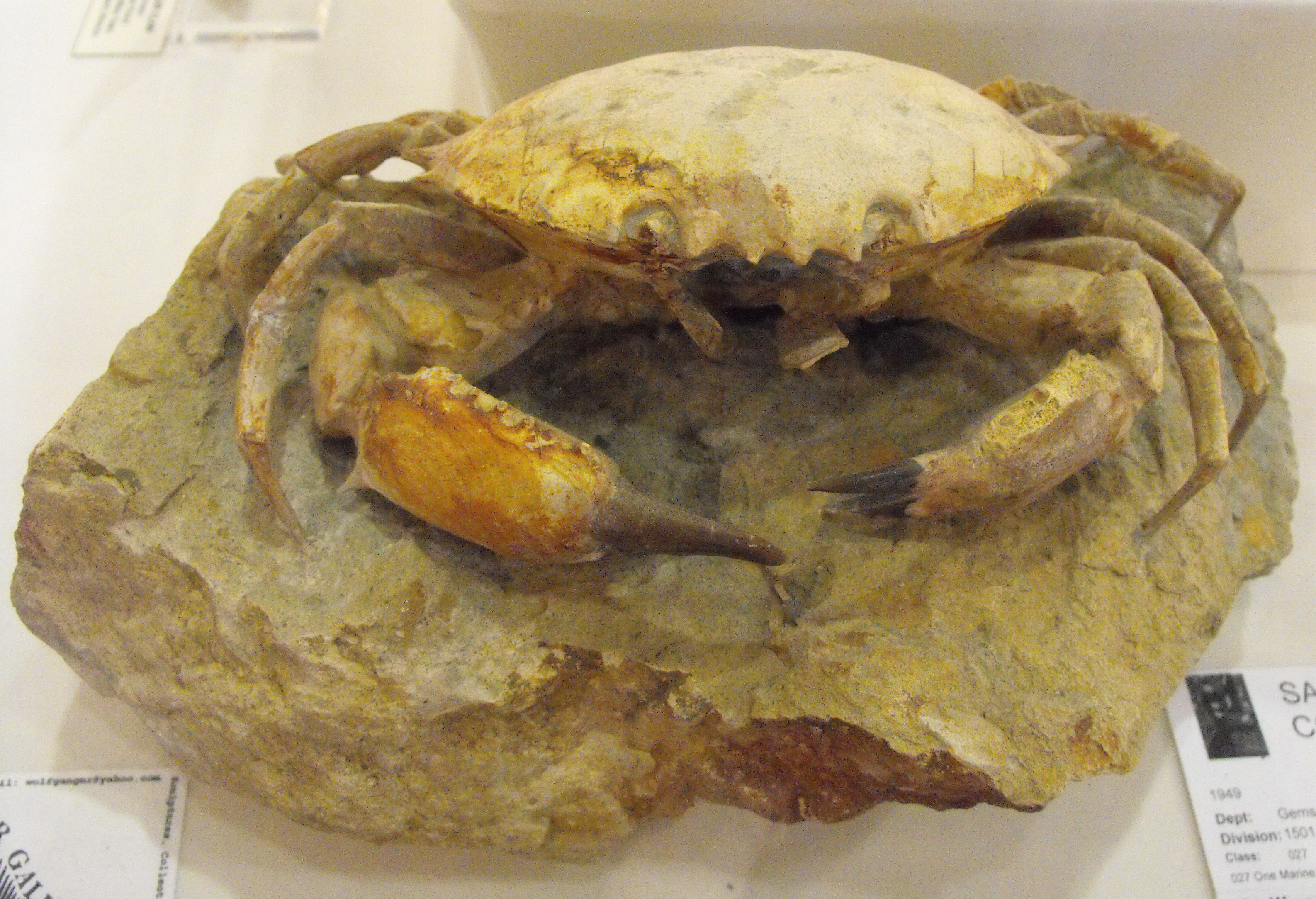 Eocene fossil Harpactocarcinus sp. from Italy, on display at the San Diego County Fair, California, USA.